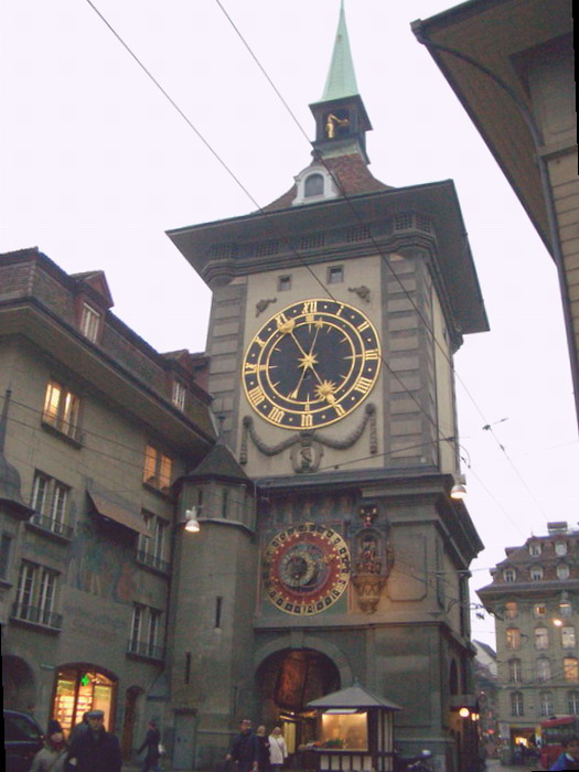 clock tower in Bern, Switzerland